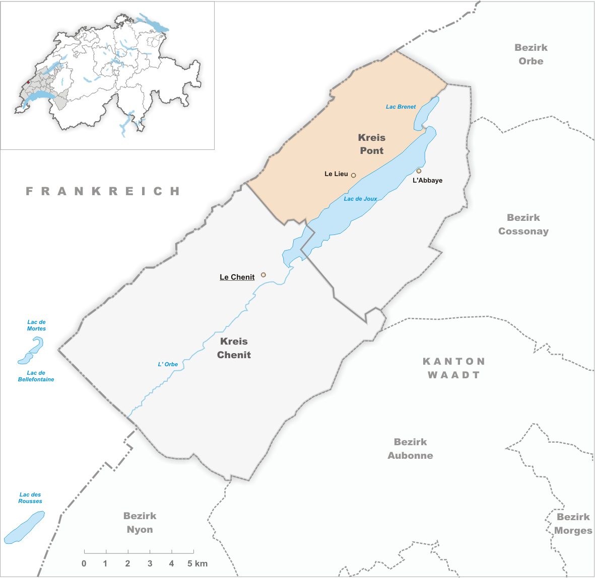 Municipality Le Lieu